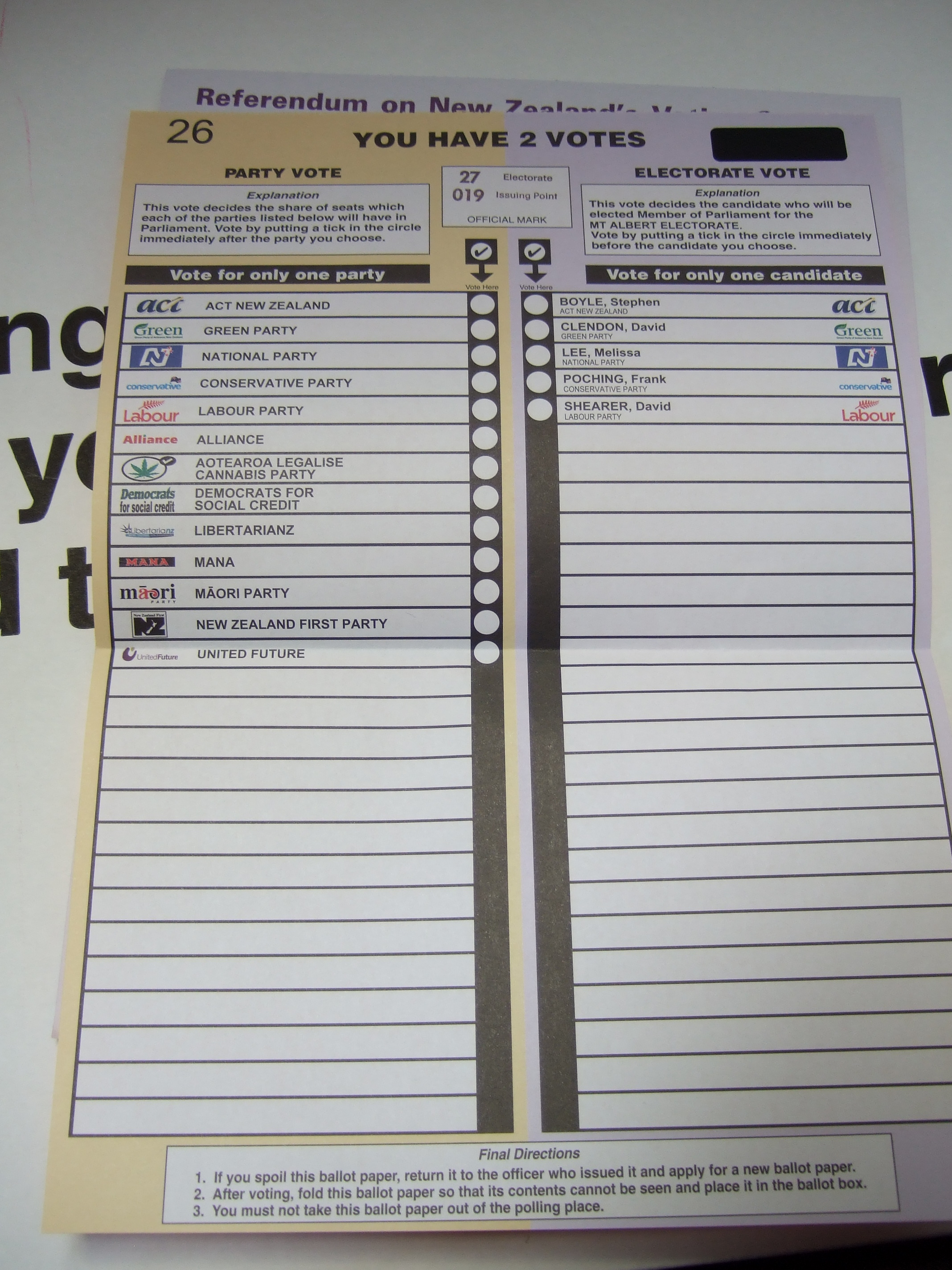 Ballot for Mt Albert Electorate in 2011 New Zealand General election